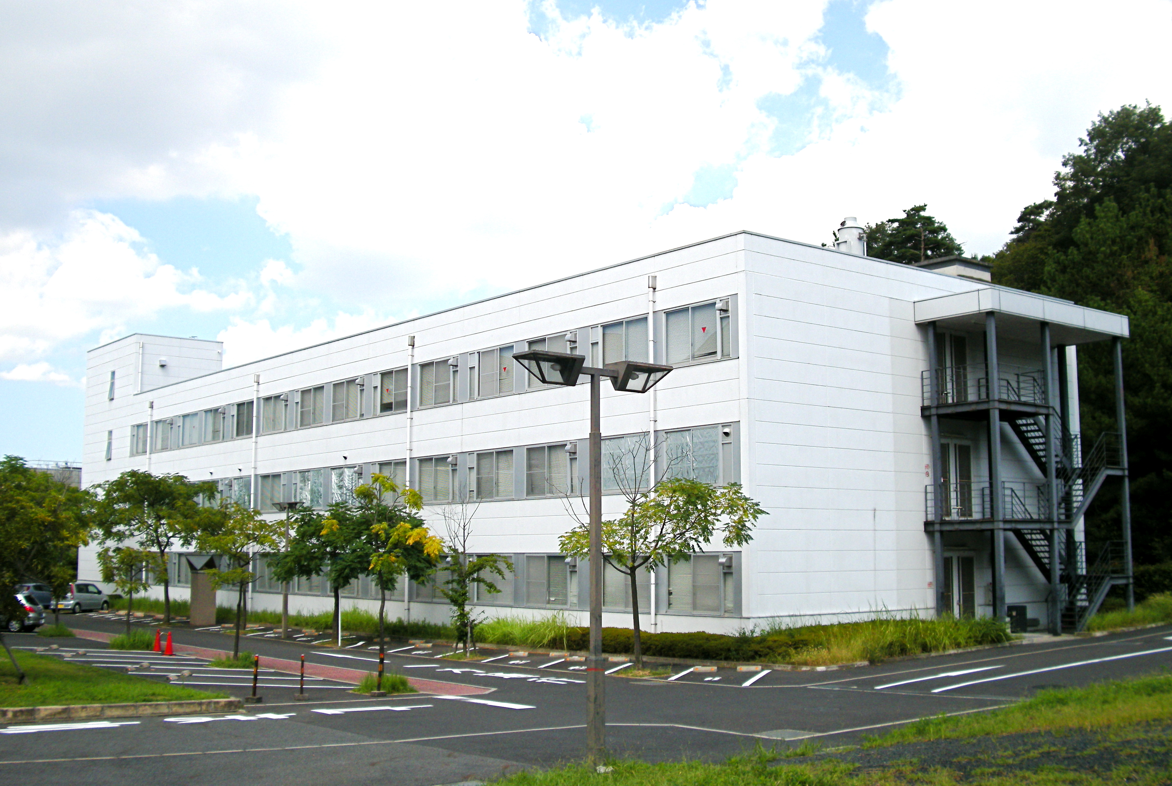 BKC Frontier Research Centre (Biwako Kusatsu Campus, Ritsumeikan University, Japan)